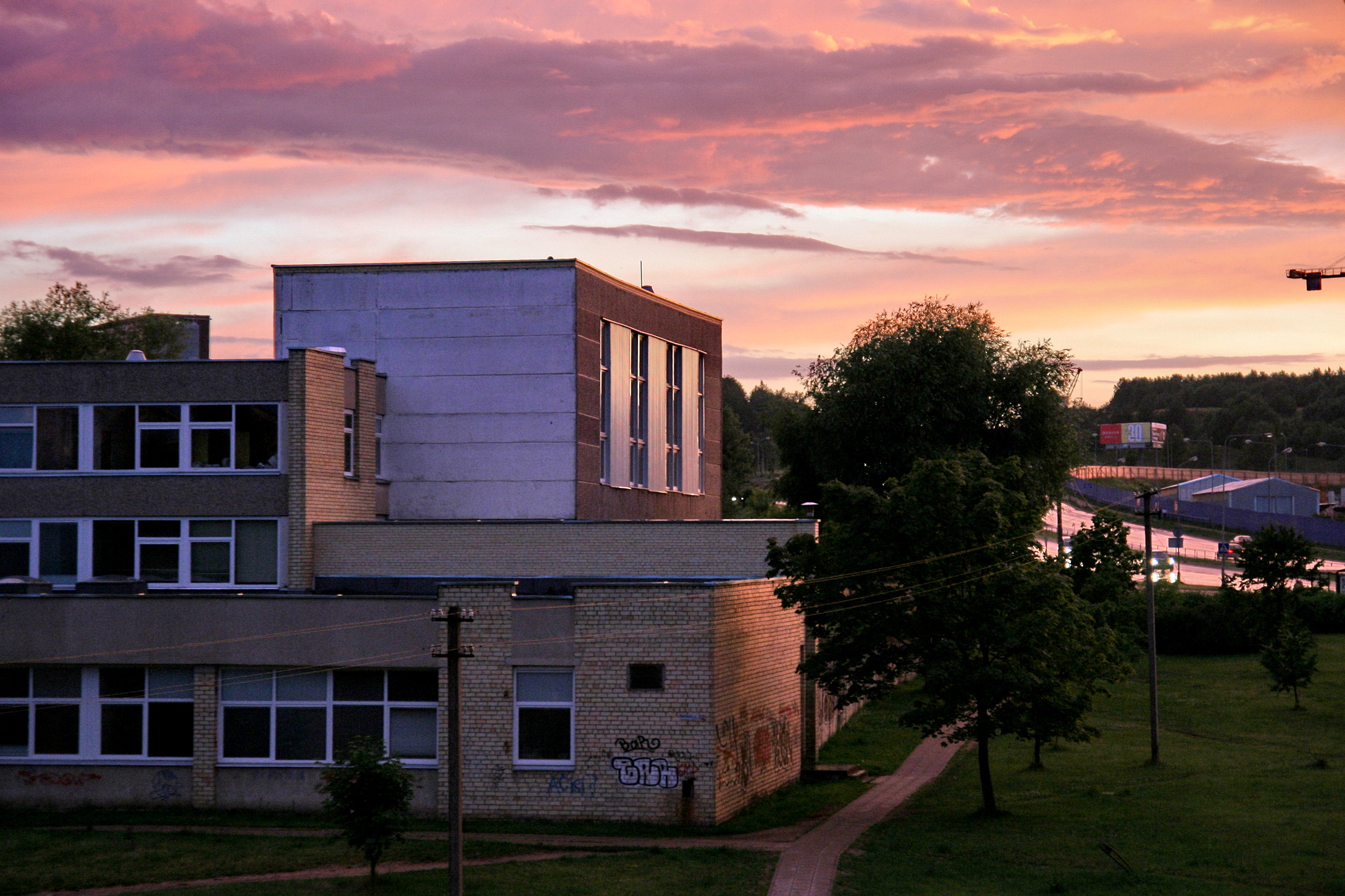 Vilnius Lyceum in the evening